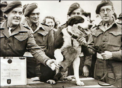 Rob the Collie receiving his Dickin Medal in 1945. In the archive of the Imperial War Museum, Neg Ref: HU 2618.